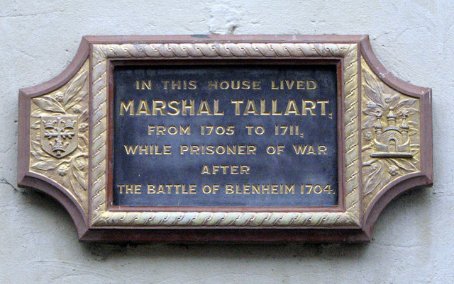 Newdigate House, Castle Gate: plaque Tallard, commander of the defeated French army at Blenheim, lived at Newdigate House from 1705-11 while on parole. The plaque is next to the door. Click to find more about the estimable Camille d'Hostun de la Baume, duc de Tallard, and celery.